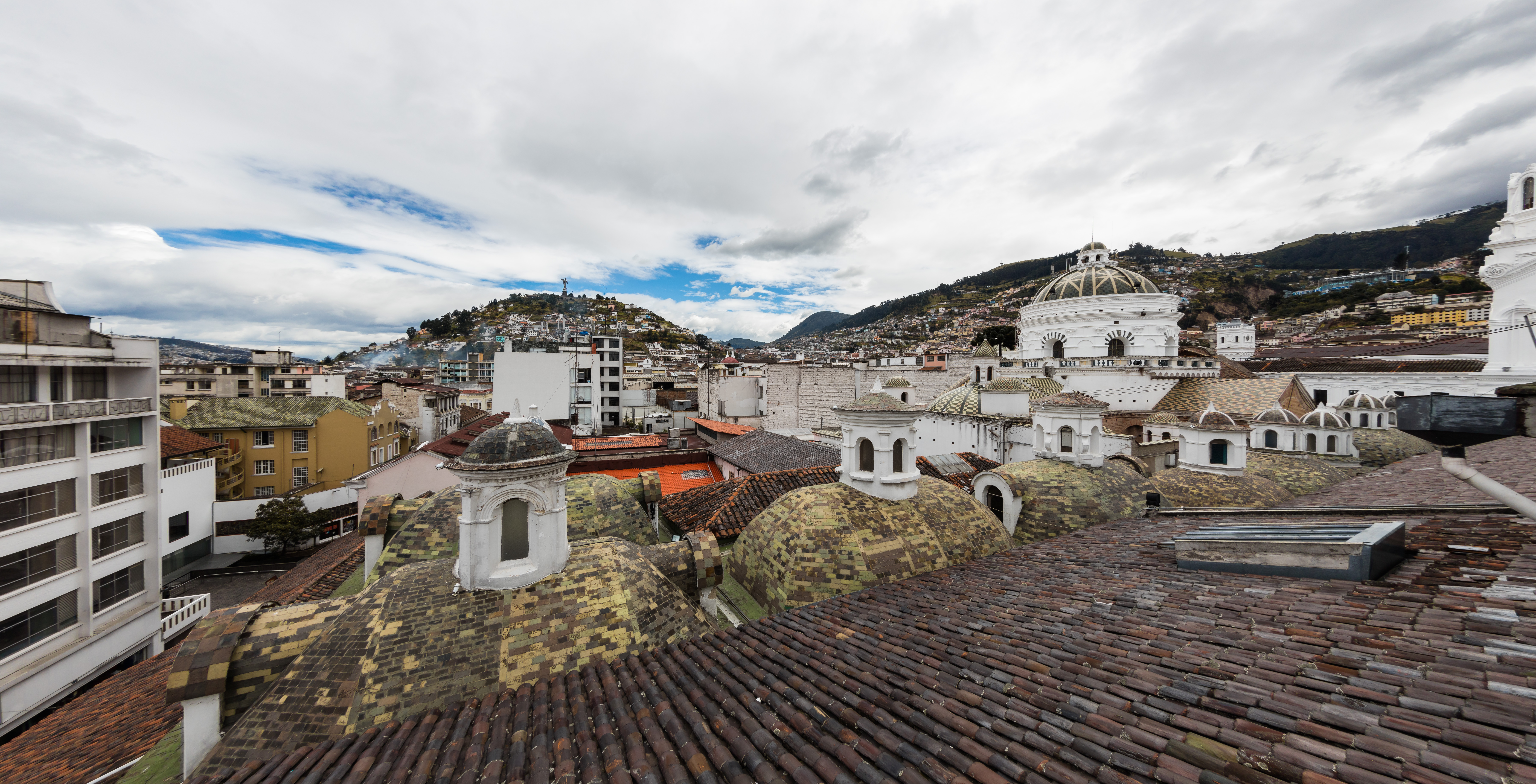 Quito cathedral, Quito, Ecuador